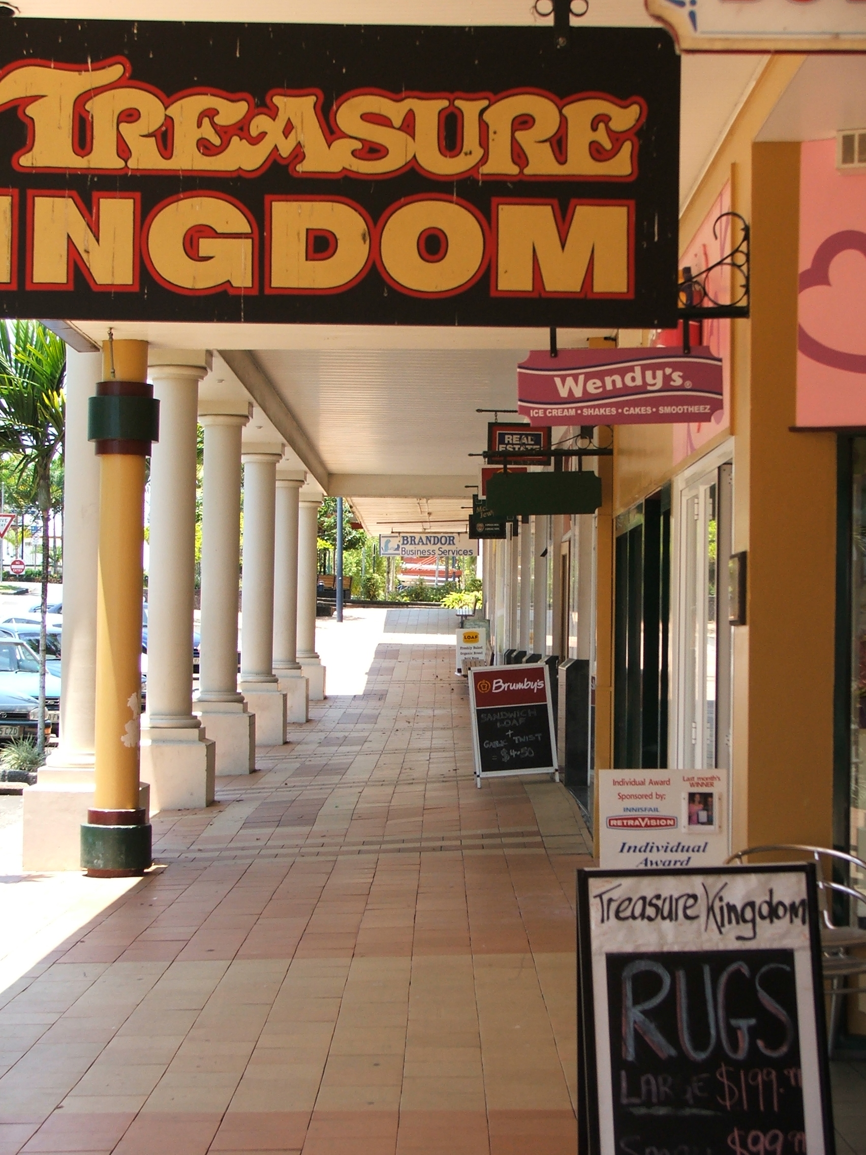 to illustrate Innisfail - my own work